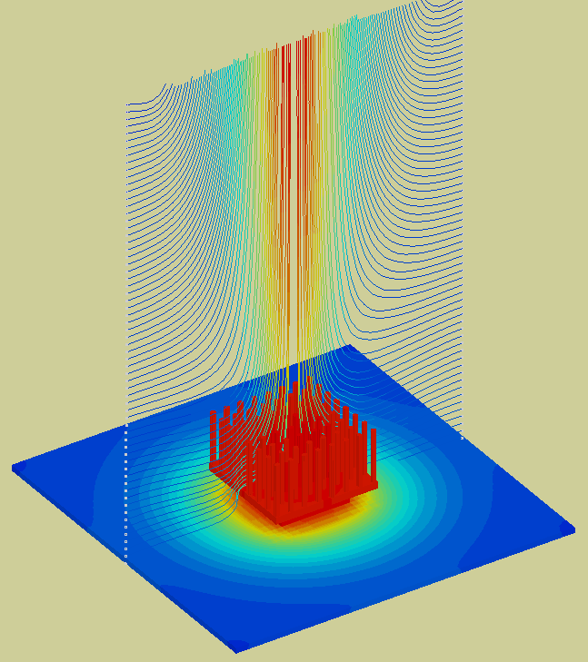 Numerical simulation of the natural convection. Airflow above a hot heat sink on a horizontal plate. The simulation was performed using the CFD software Flotherm.